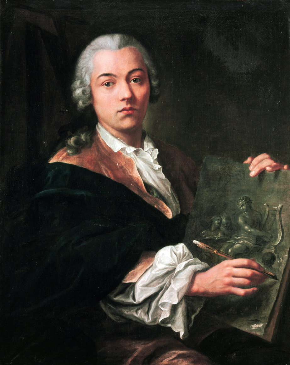 Johann Anton de Peters oil on canvas 92,5 x 74 cm circa 1750-1755